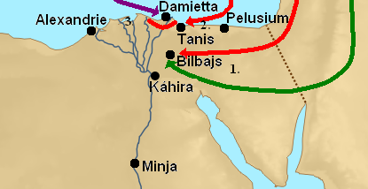 5th invasion of crusades to Egypt